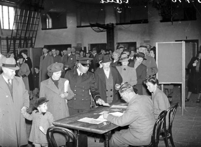 Polling station in Göteborg, 1940 parliamentary election